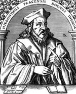 Jerome of Prague